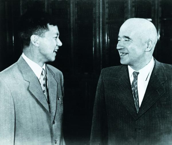 Ivan Petrovsky, the president of Moscow State University, congratulate Chinese mathematician Gu Chaohao getting his Ph.D degree in Moscow State University. Gu Chaohao is the first Chinese from PRC who get a Ph.D degree in Moscow State University.